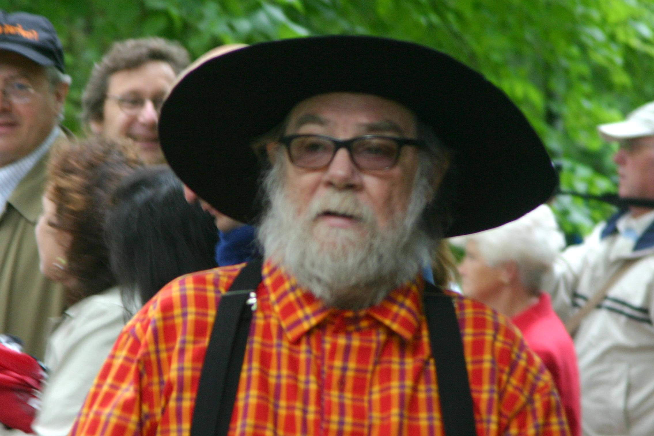 Paul McCarthy at the Westernparade, a parody parade organized in 2005.